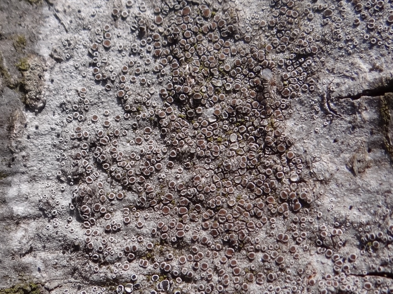 Lecanora argentata on Fagus sylvatica (location: Poland, Beskid Wyspowy, Jasień)